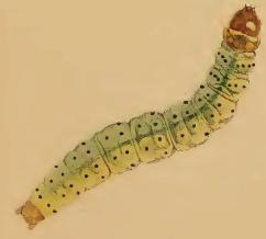 Stainton’s Natural History of the Tineina (1855–1873): Agonopterix parilella